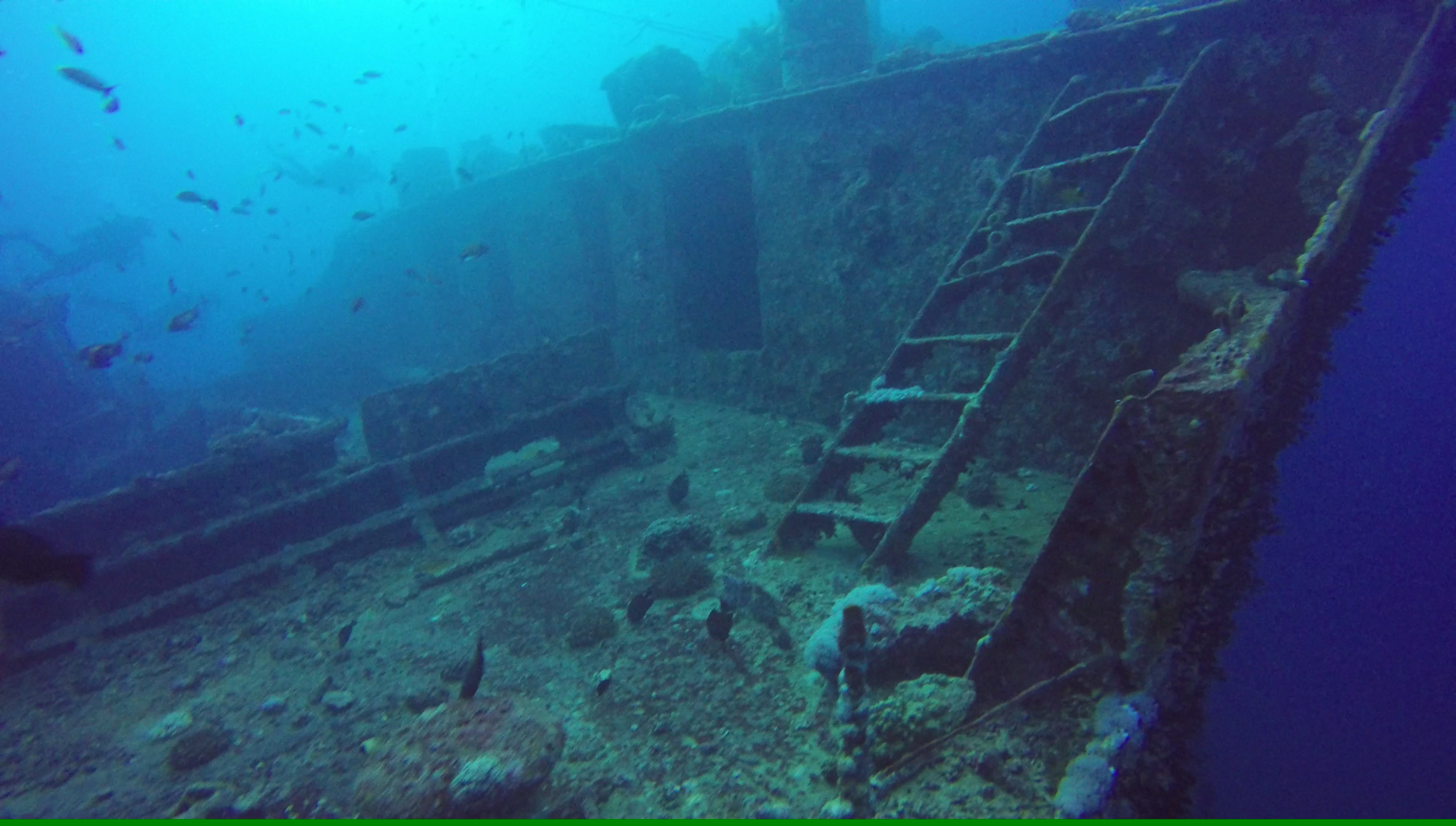 Thislegorm